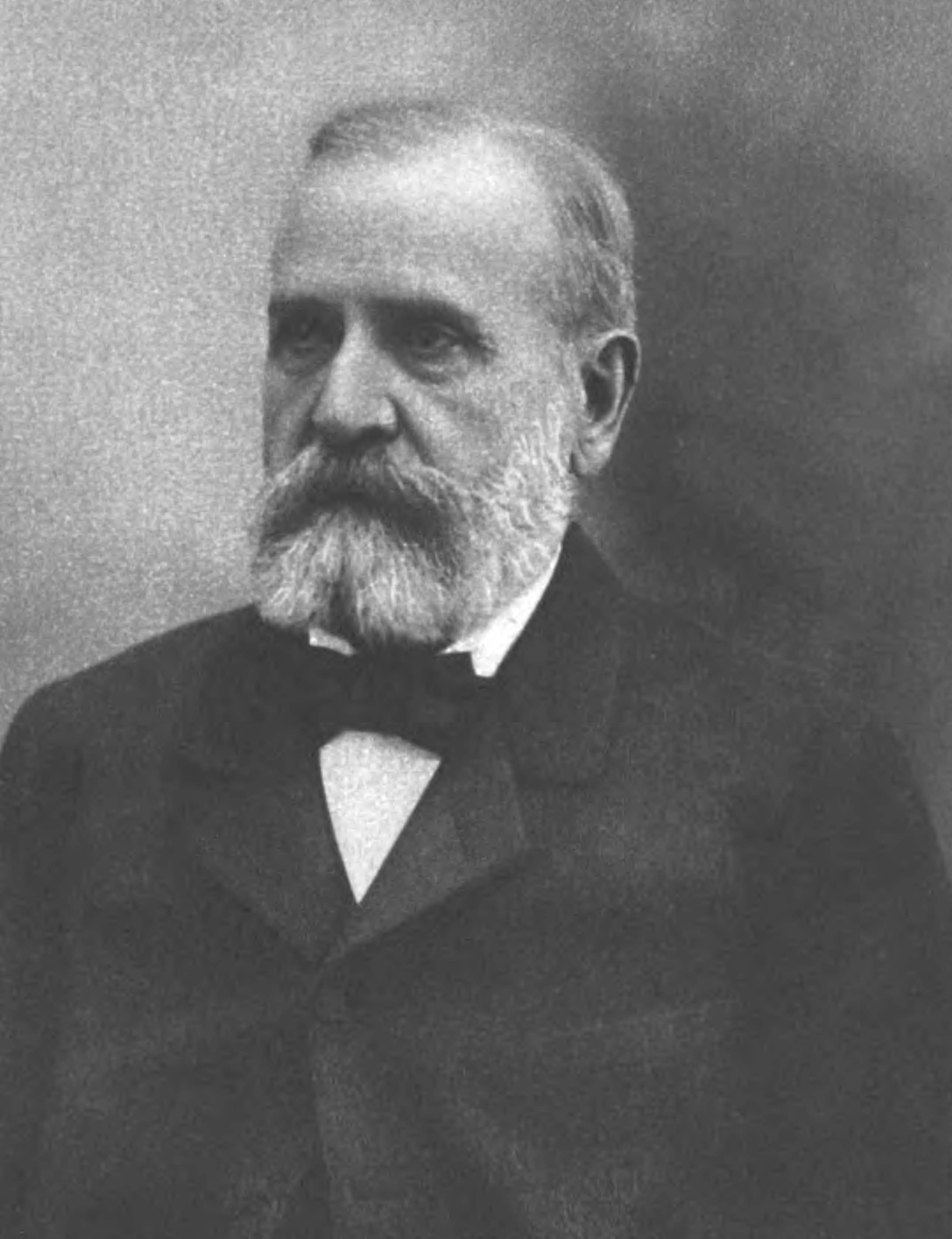 Photo of Samuel Baugher Sneath of Tiffin, Ohio, USA as found in the National Cyclopaedia of American Biography, Volume XVII, 1920